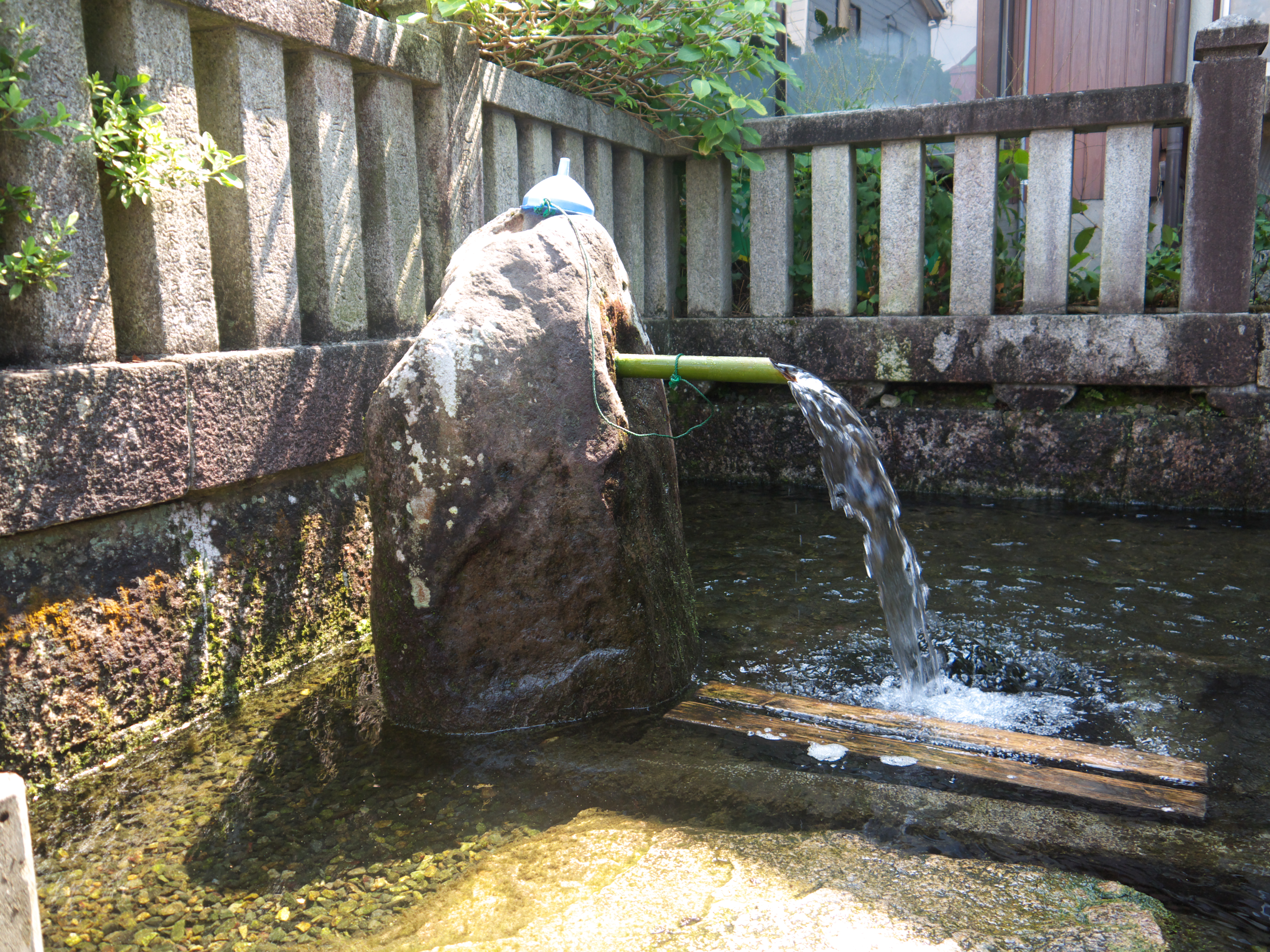 Juo Spring (Juo-mura-no-mizu, literally "Water of Juo Village")